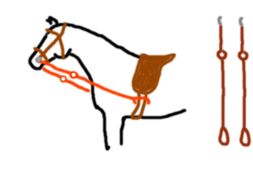 side reins on a horse and separate